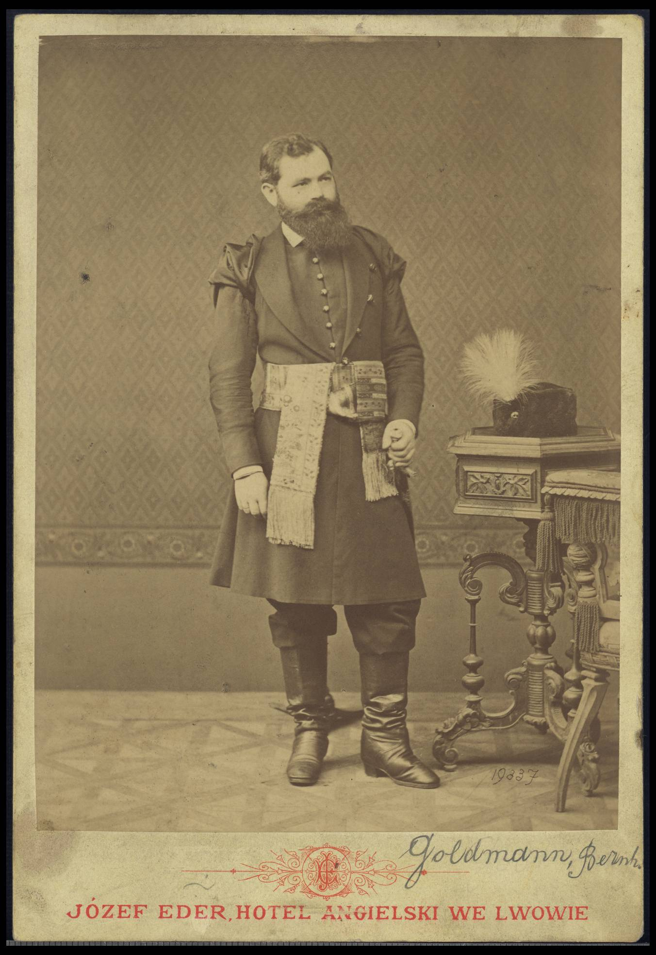 picture of Bernard Goldman